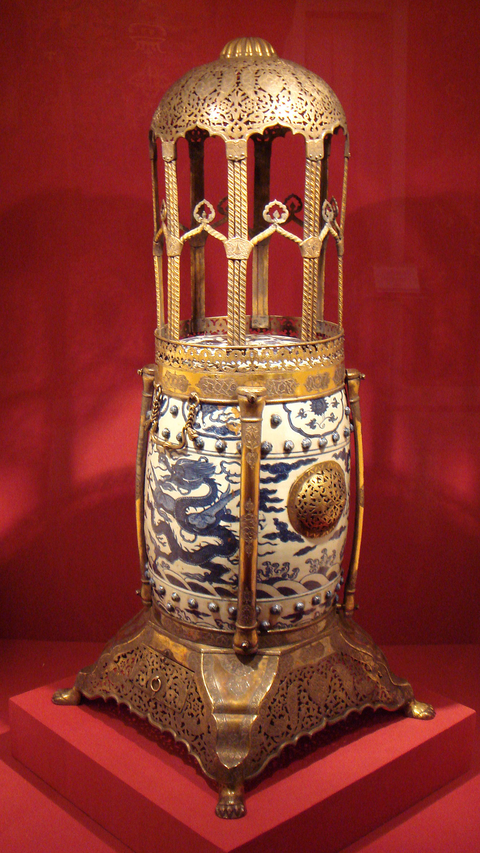 Ming Chinese porcelain stool (1575-1600) modified with Ottoman metal mounting from 1618 for conversion to an incense burner